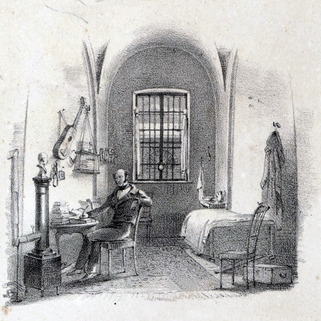 Engraving on p. 12 of Louis Bertrand, Histoire de la démocratie et du socialisme en Belgique depuis 1830, vol. 1, Brussels: Dechenne et Cie; Paris: Édouard Cornély et Cie, 1906, 455 pages.